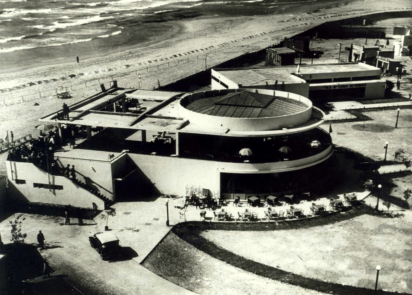 Events in Israel